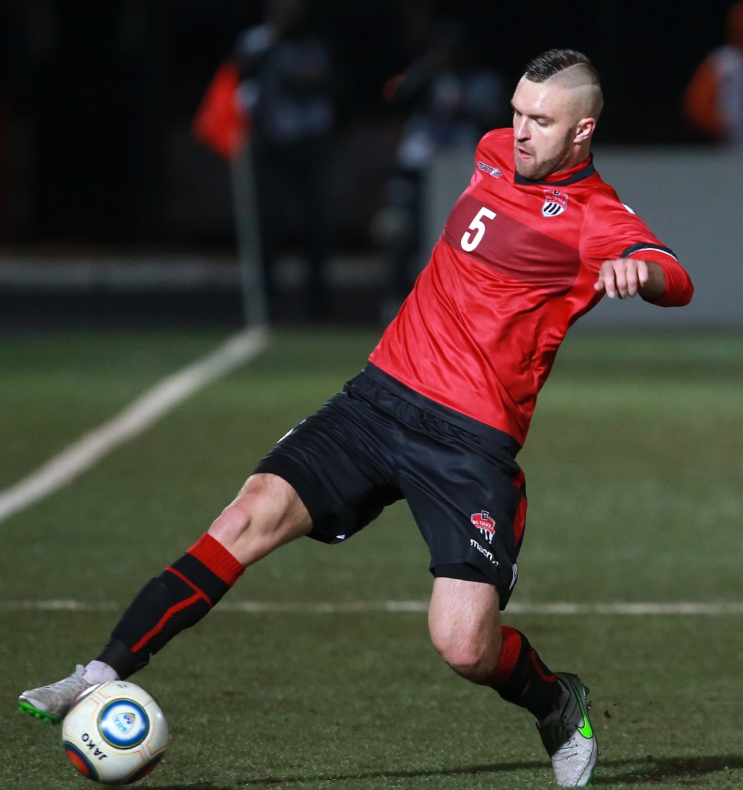 Aleksei Shumskikh with FC Khimki in a game against FC Lokomotiv Moscow.